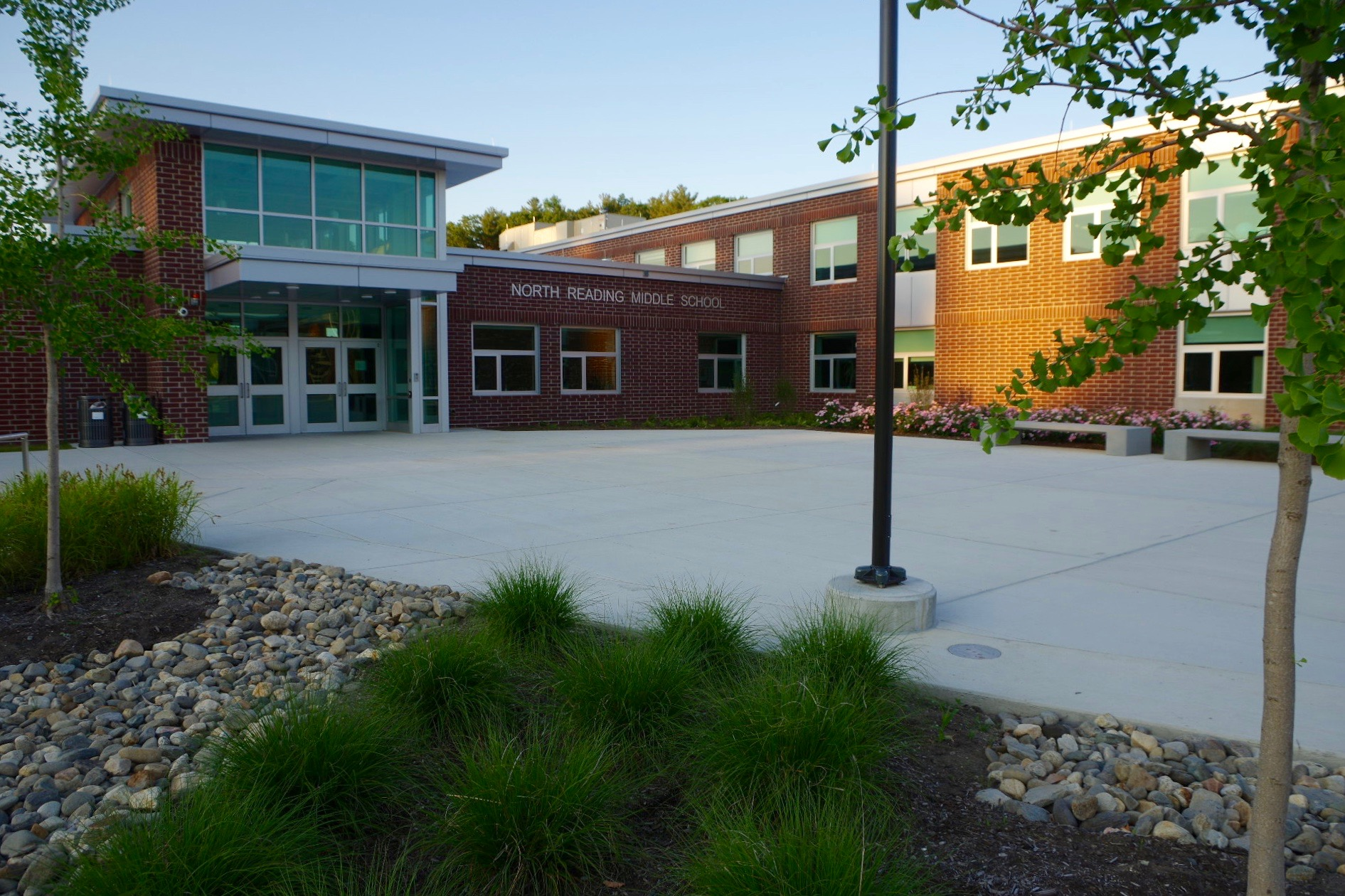 Picture of the new North Reading Middle School entrance